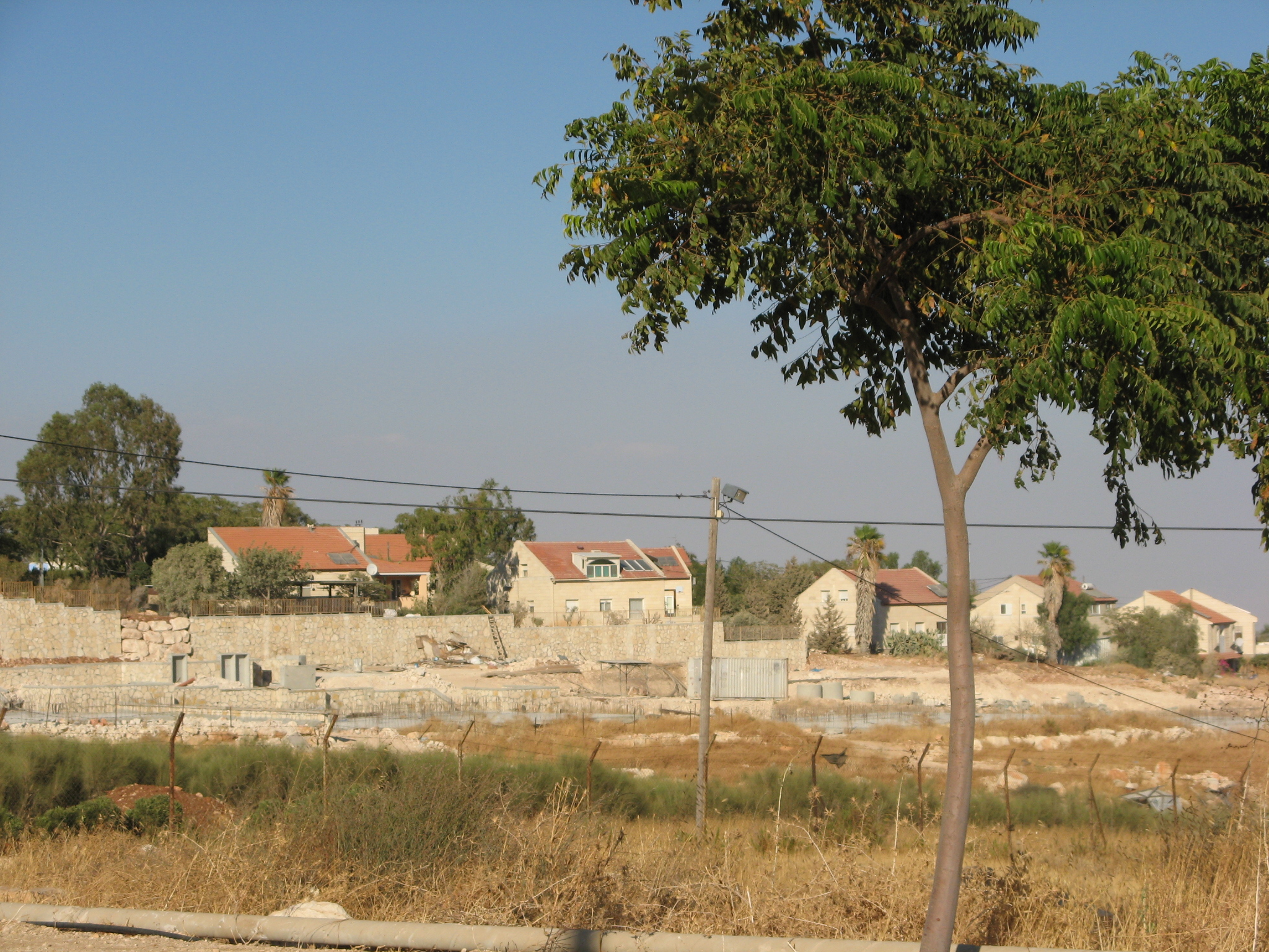 Kochav Hashachar houses and construction